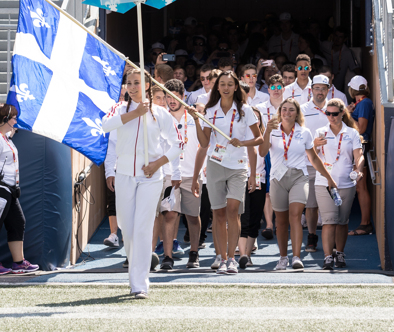 2017-08-13-Matt_Duboff-Team Quebec-108